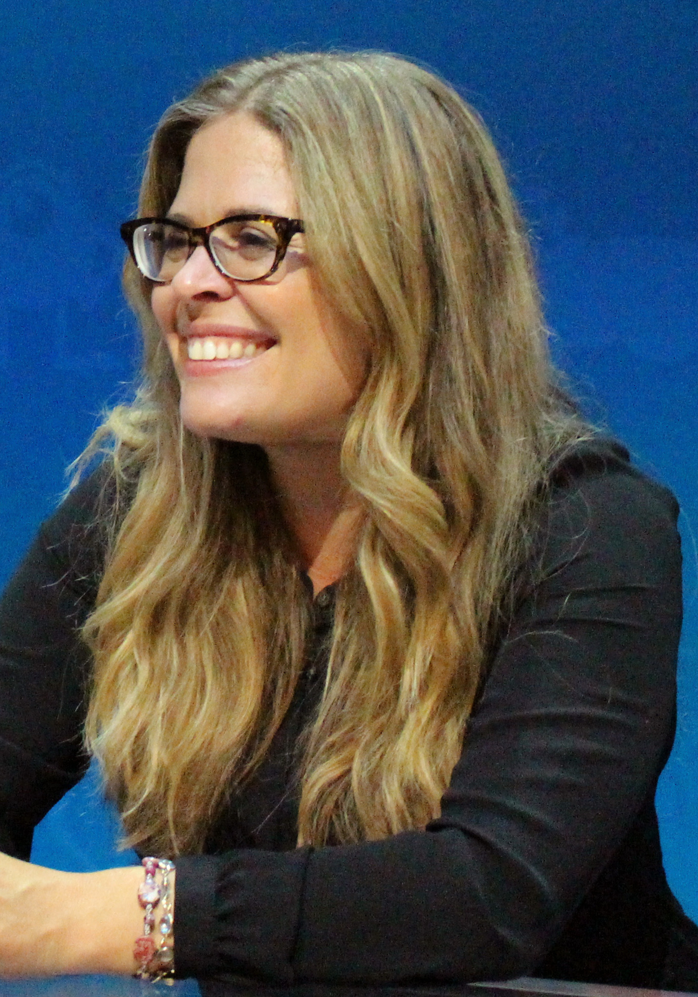 The directors of Frozen Fever, Chris Buck and Jennifer Lee, signing lithographs of the film's visual development art at D23 Expo in Anaheim, California on August 16, 2015.